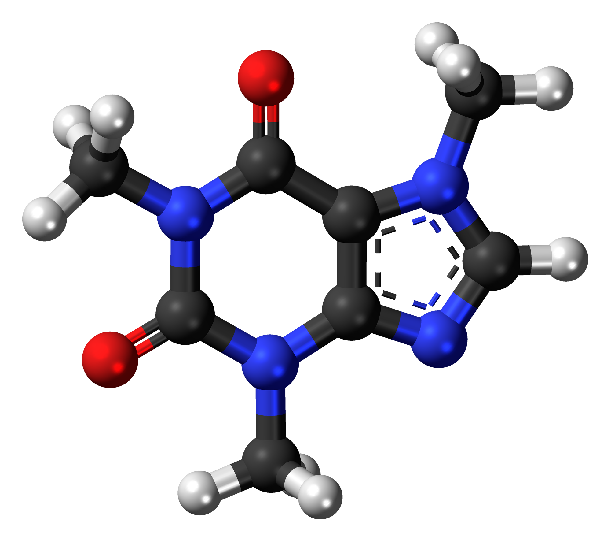 Ball-and-stick model of the caffeine molecule, the world's most widely consumed psychoactive drug. Colour code: Carbon, C: black Hydrogen, H: white Oxygen, O: red Nitrogen, N: blue